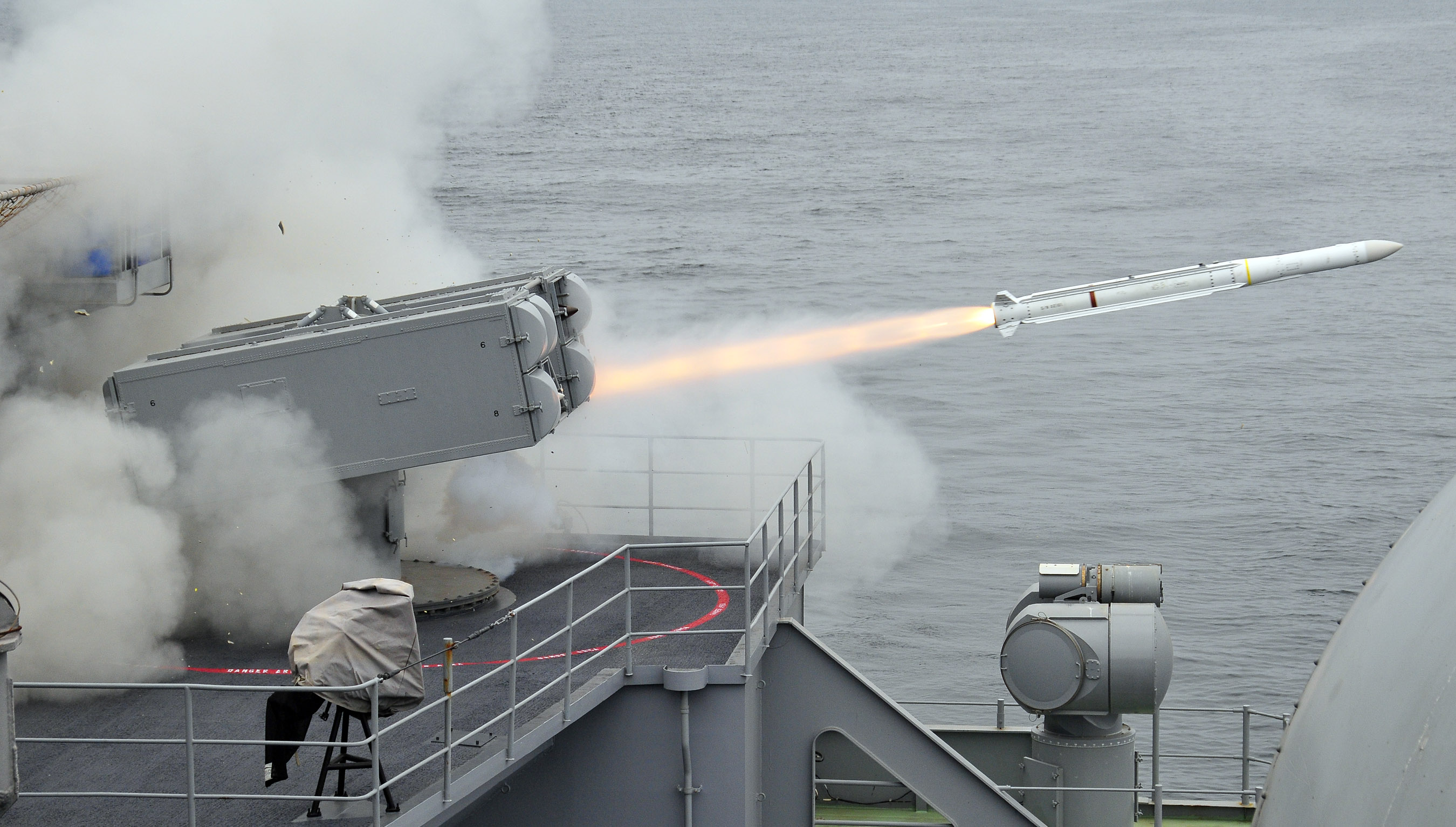 PACIFIC OCEAN (July 23, 2010) An Evolved Sea Sparrow missile is launched from the aircraft carrier USS Carl Vinson (CVN 70). Carl Vinson is currently underway conducting operations off the coast of Southern California. (U.S. Navy photo by Mass Communication Specialist 3rd Class Patrick Green/Released)